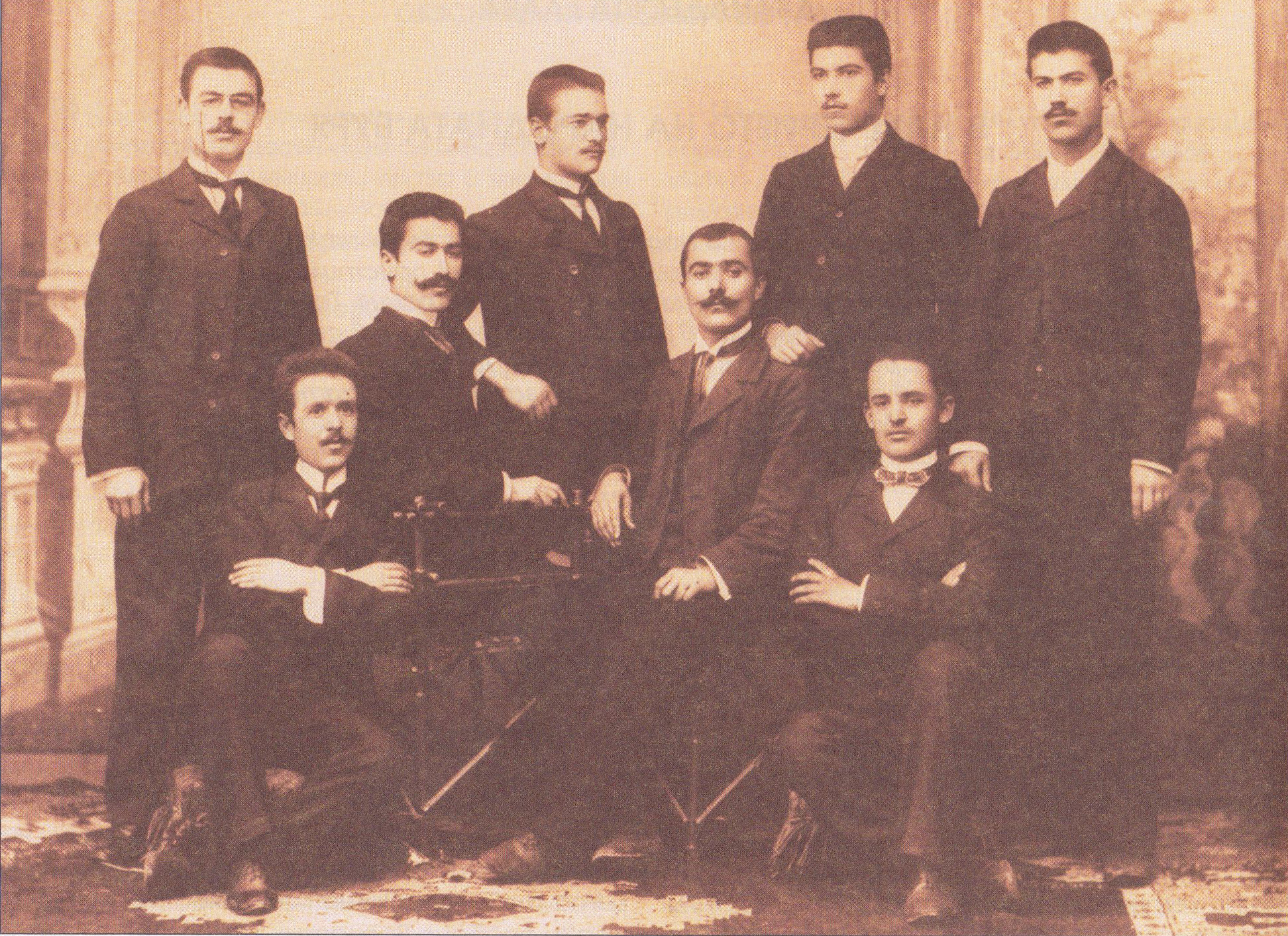 Members of IMARO and bulgarian school teachers in Serres: Nikola KOtsev, Mihail Monev, Atanas Saev, Dancho Danov, down: Pantaley Kosturliev, Vangel Popangelov, Milan Konev, Spas Popfilimonov